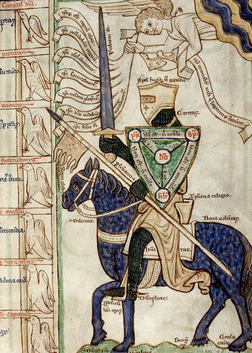 Detail of Harleian ms. 3244, folios 27-28, showing an allegorical knight preparing to battle the seven deadly sins with the "Scutum Fidei" diagram of the Trinity as his shield. This is part of a ca. 1255-1265 illustration to the Summa Vitiorum or "Treatise on the Vices" by William Peraldus. For detailed discussion of the manuscript, see the article "An Illustrated Fragment of Peraldus's Summa of Vice: Harleian MS 3244" by Michael Evans in Journal of the Warburg and Courtauld Institutes, vol. 45 (1982), pp. 14-68. For the device on the knight's shield, see image description page File:Trinity knight shield.jpg.